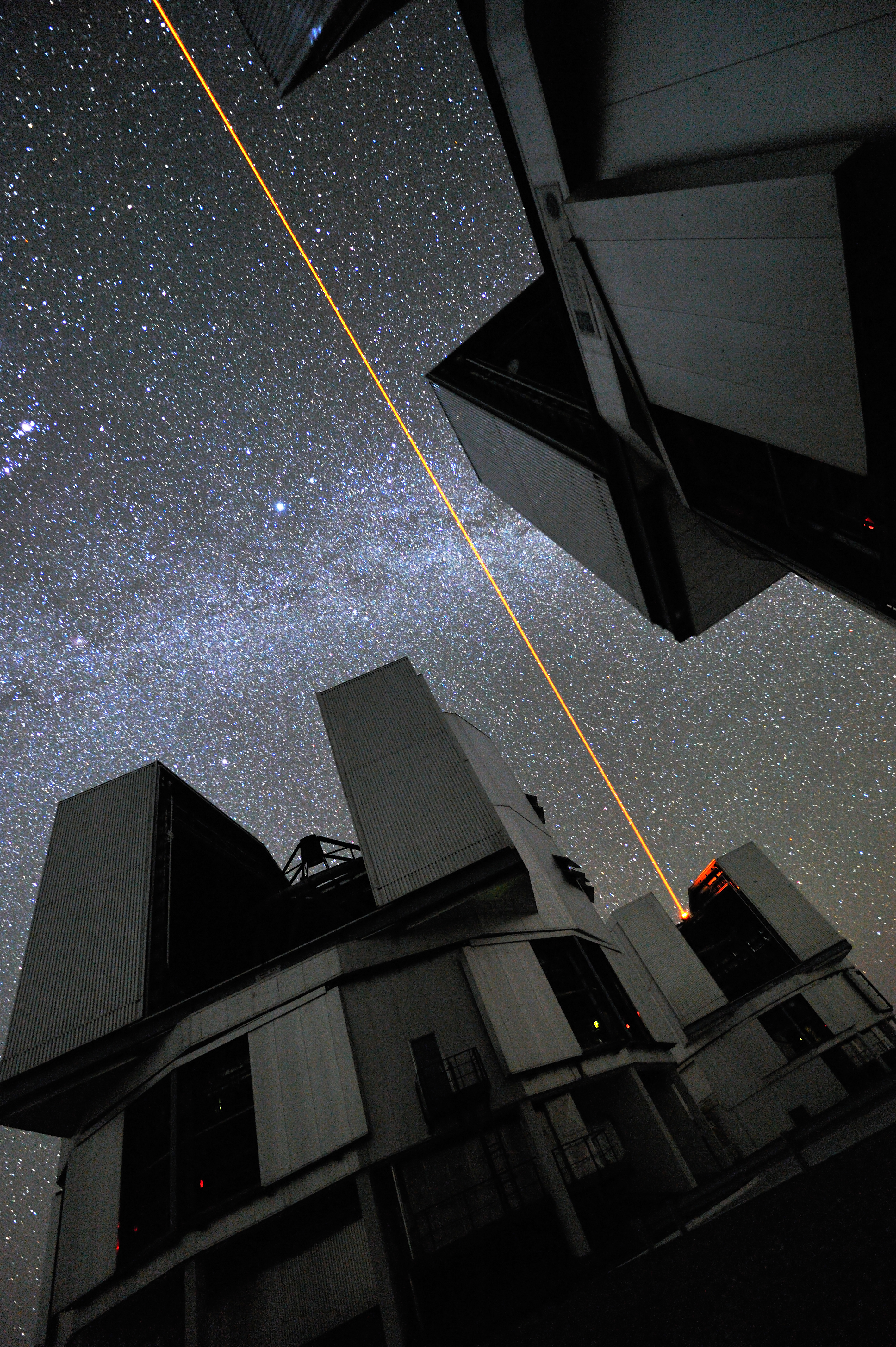 This is roughly what we could see if we lie down on the VLT platform at night, when the Laser Guide Star (LSG) is being used. The laser beam, launched from VLT´s 8.2-metre Yepun telescope, crosses the sky and creates an artificial star at 90 km altitude in the high Earth´s mesosphere. The LGS is part of the VLT´s Adaptive Optics system and it is used as reference to correct images from the blurring effect of the atmosphere. Three of the four VLT 8.2-metre telescopes are seen in this impressive view. The Milky Way, with the bright star Sirius at the centre, appears almost perpendicular to the direction of the laser. On the left edge, the sword of the Orion constellation is visible; the brightest diffuse spot is the star formation region M 42, better known as the Orion Nebula.